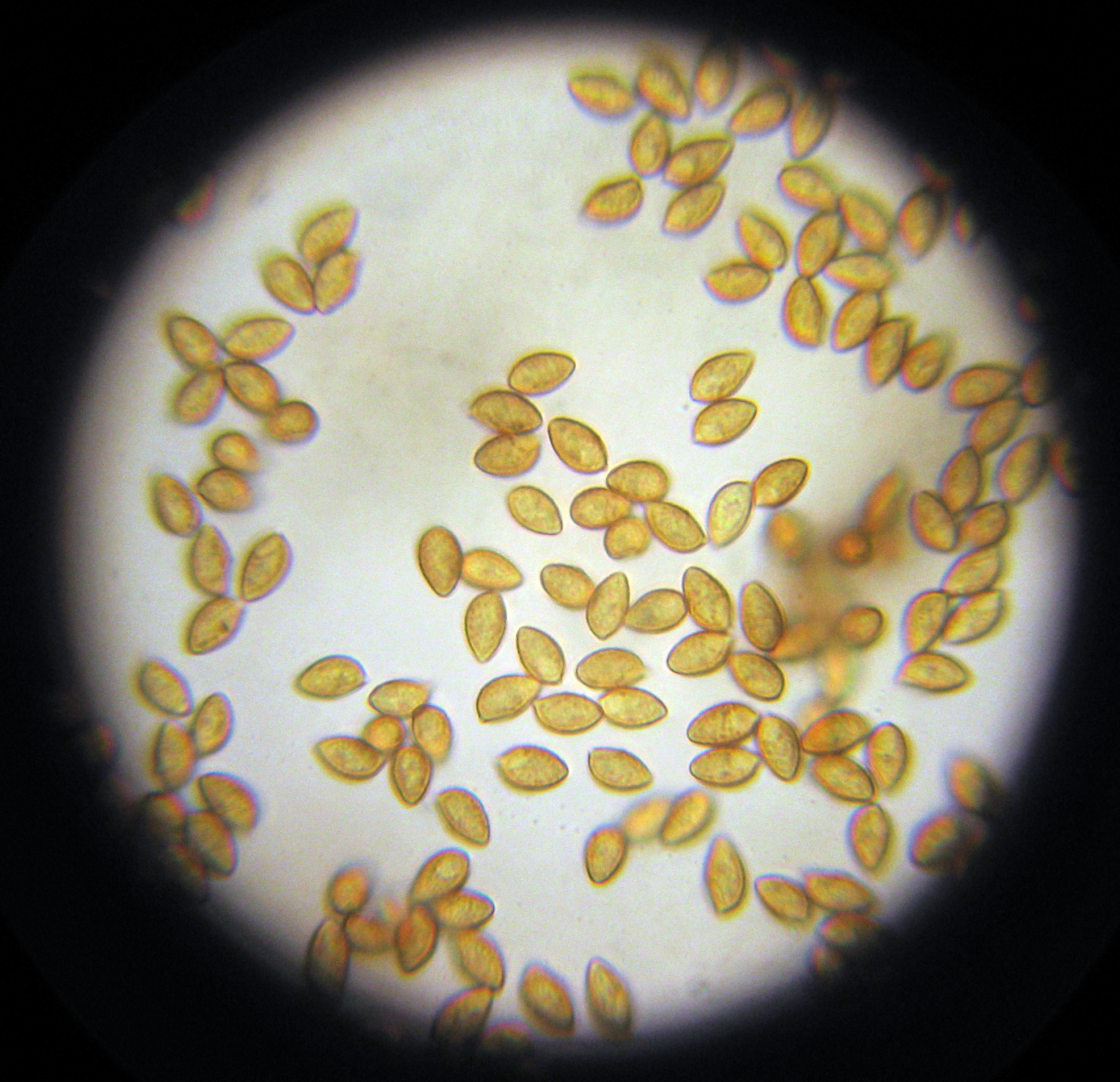 Spores of the toxic mushroom Galerina marginata (Batsch) Kühner, at 1000x magnification. The mushroom was originally identified as Galerina autumnalis (Peck) A.H. Sm. & Singer, but G. marginata is now known to be the preferred synonym. Specimen collected from Strouds Run State Park, Athens, Ohio, USA.